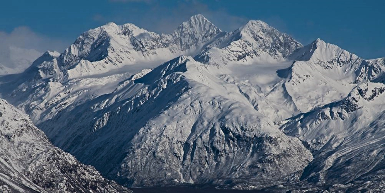 Mt. Benet